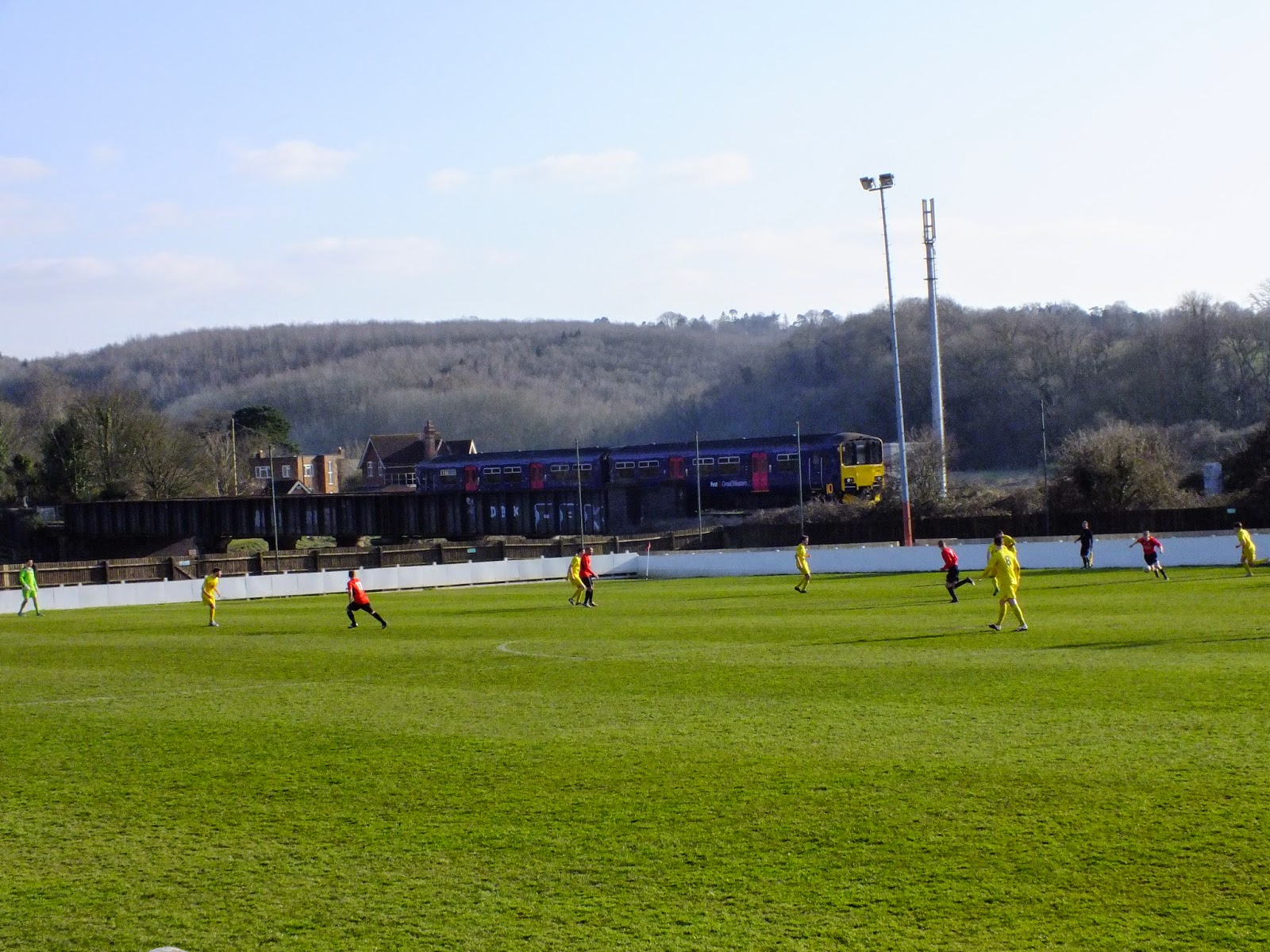 Bristol Manor Farm's ground The Creek, taken on the 21st of March 2015. The Severn Beach line runs directly parallel to the far side of the ground.